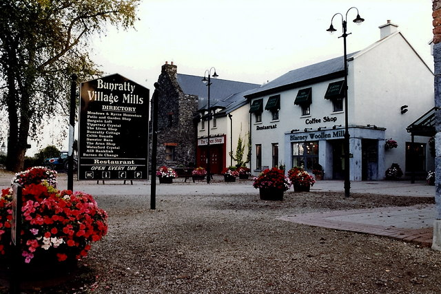 Bunratty - Bunratty Village Mills This site is adjacent to Bunratty Castle Hotel and across from Bunratty Castle and Durty Nelly's.